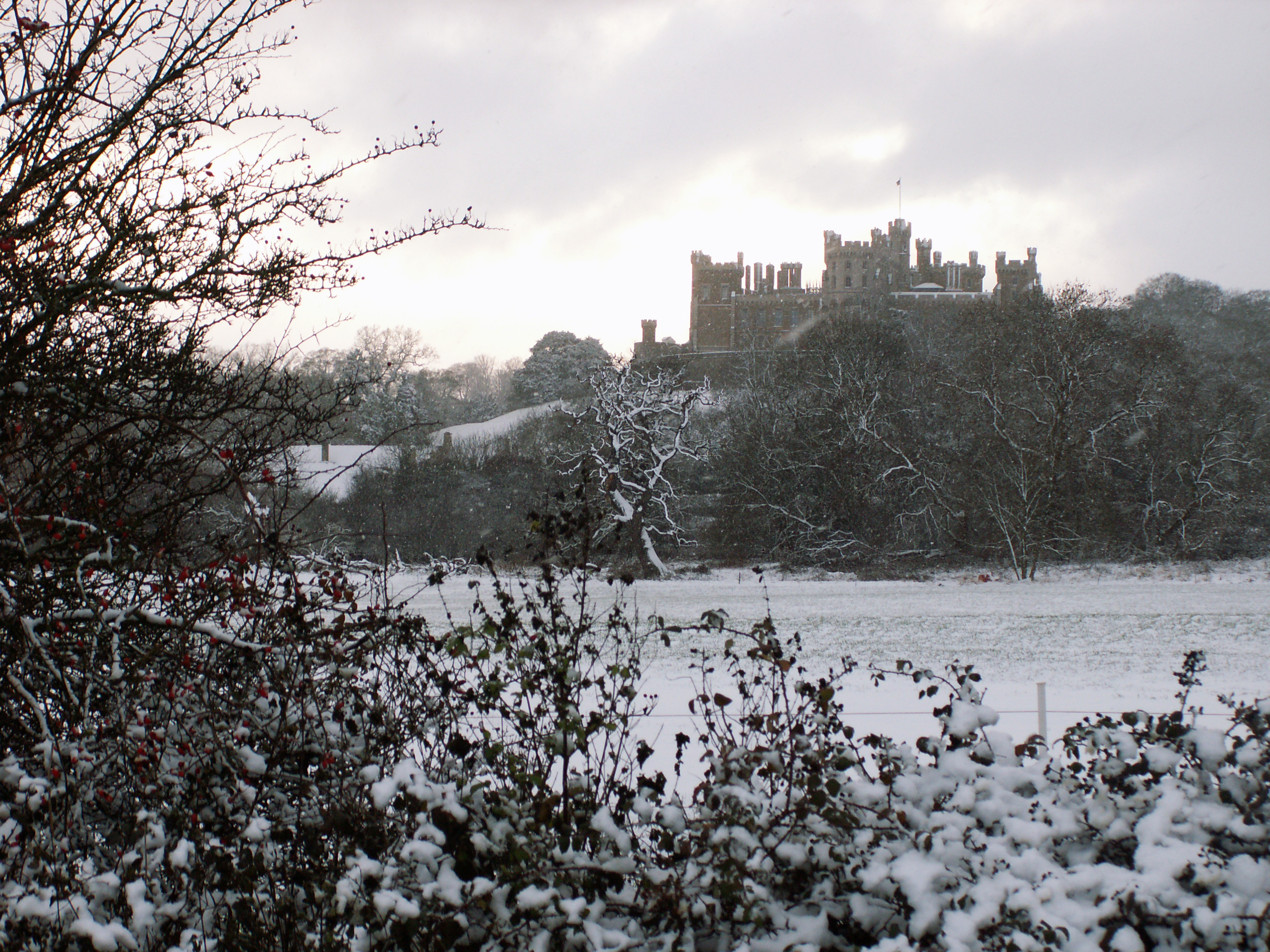 Belvoir Castle. A view from 650 yards north-east and below the Castle - 27 December 2005